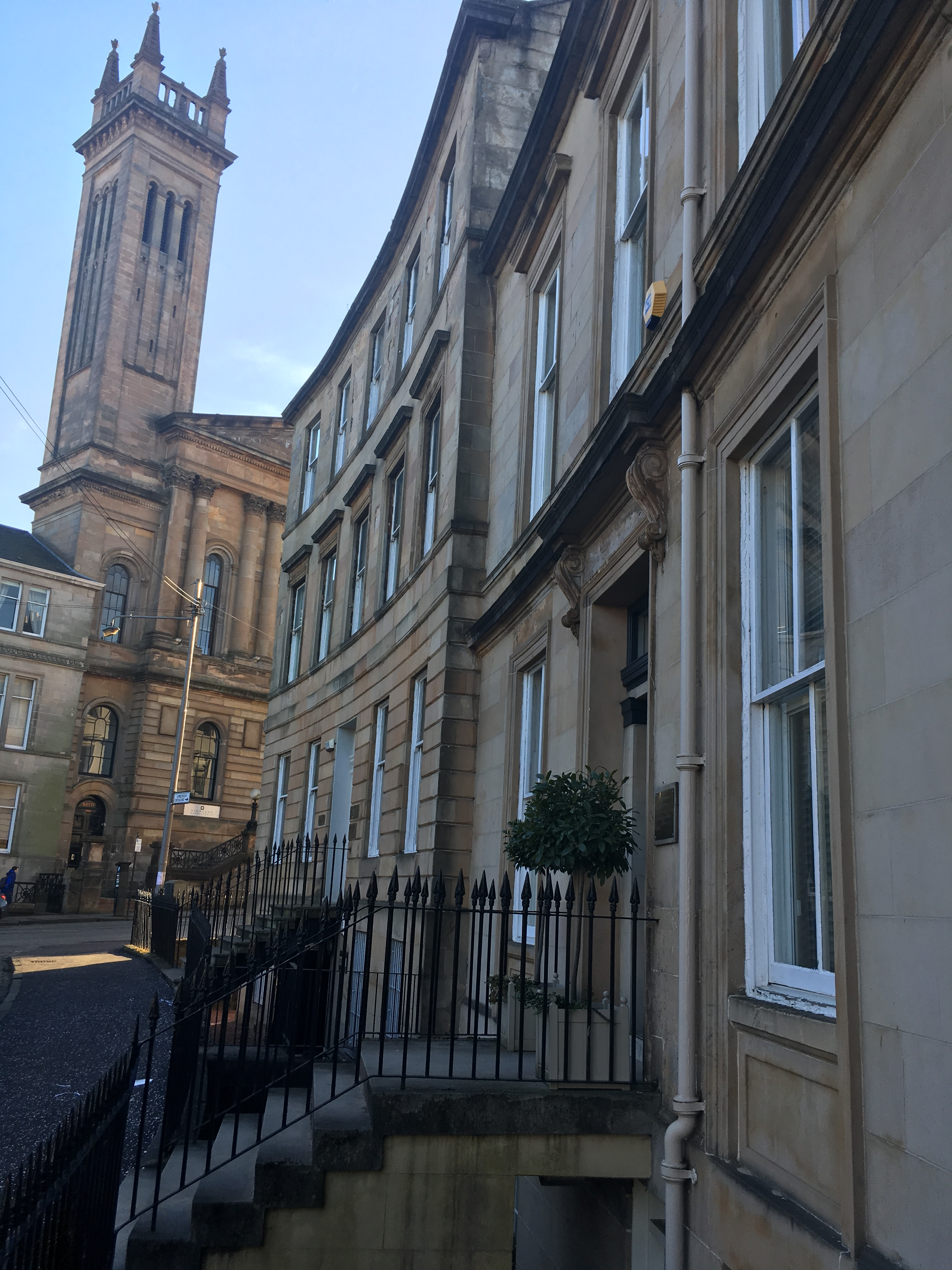 Front of building at 18 Lynedoch Terrace, Glasgow. Wikidata has entry Q17811815 with data related to this item.